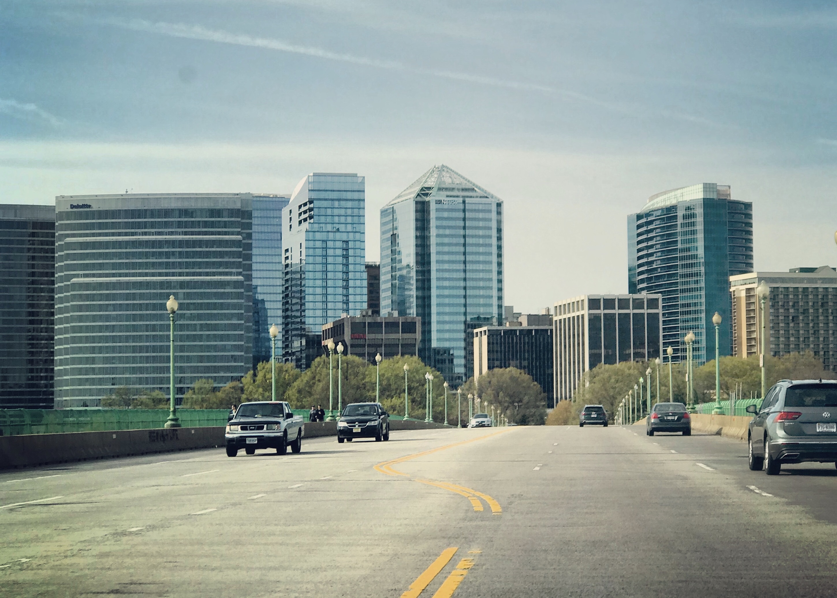 Rosslyn Skyline in April 2018 seen from the Key Bridge.